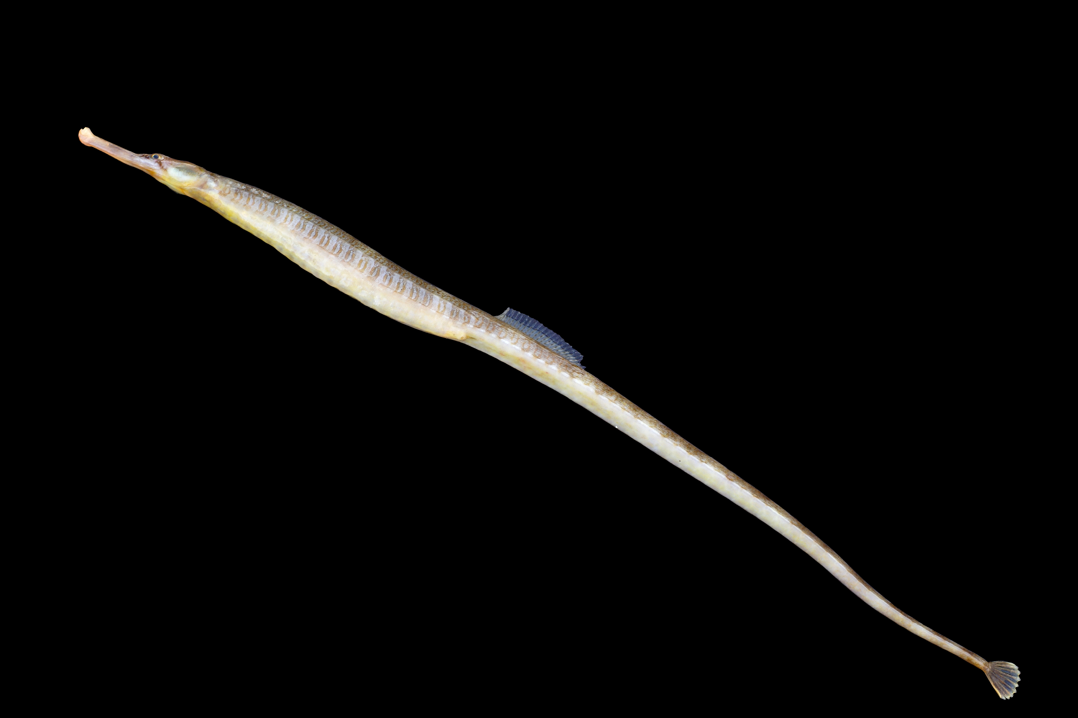 Greater pipefish from the Vlakte van de Raan in the Southern North Sea.